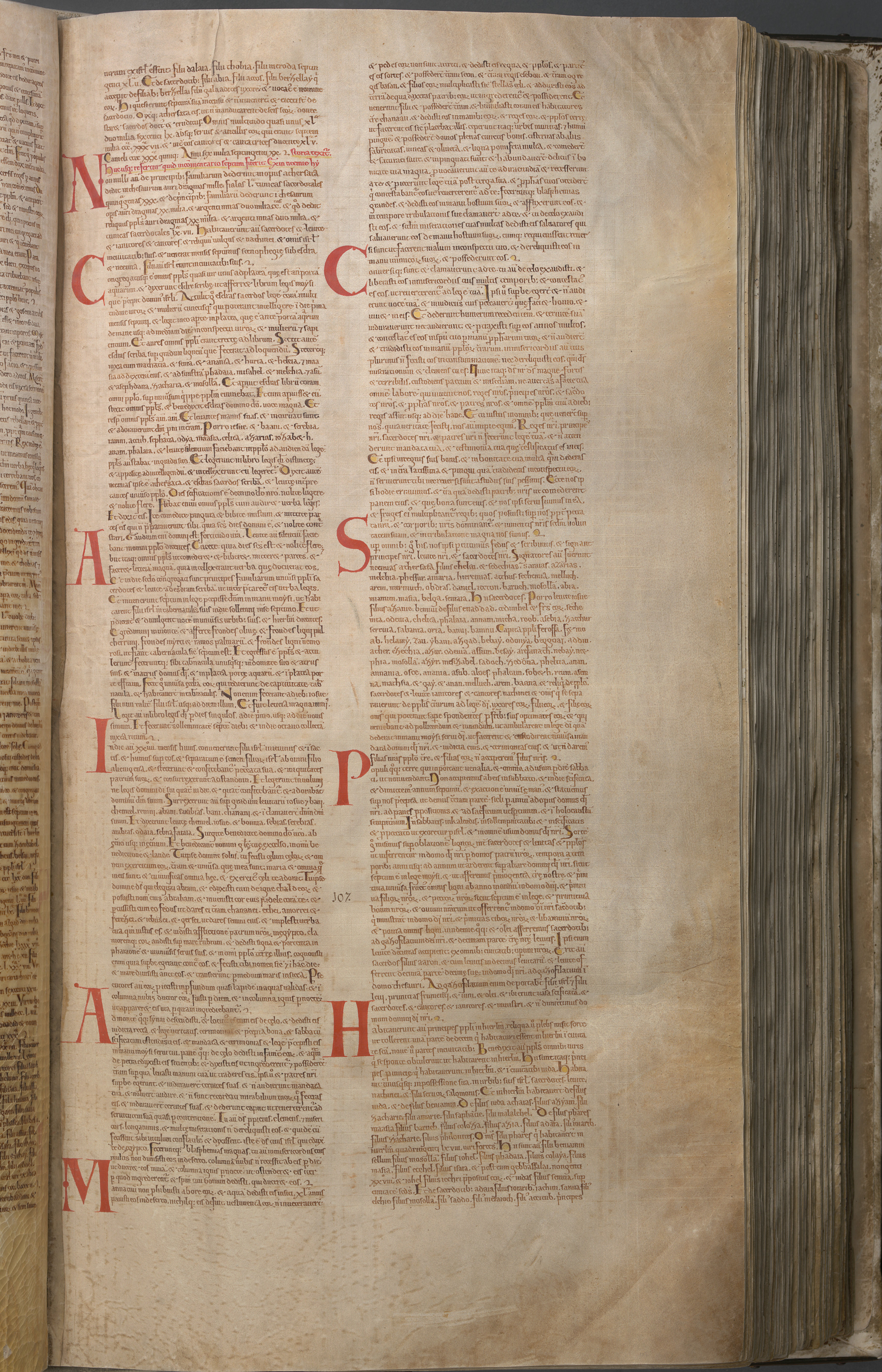 Giant Book), the largest extant medieval manuscript in the world. It is also known as the Devil's Bible because of a large illustration of the devil on the inside and the legend surrounding its creation. It is thought to have been created in the early 13th century in the Benedictine monastery of Podlažice in Bohemia (modern Czech Republic). It contains the Vulgate Bible as well as many historical documents all written in Latin. During the Thirty Years' War in 1648, the entire collection was taken by the Swedish army as plunder, and now it is preserved at the National Library of Sweden in Stockholm, though it is not normally on display.